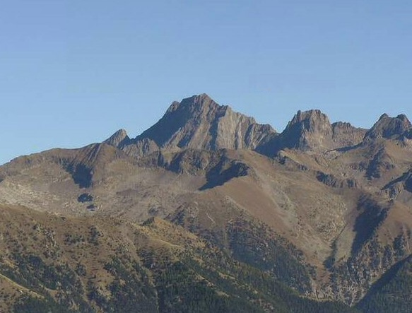 Monte Argentera in the Massif du Mercantour of the Maritime Alps. In Province of Cuneo, Parco naturale delle Alpi Marittime, Piedmont region, northeastern Italy.